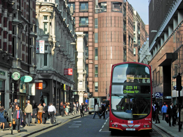 Old Broad Street, City of London This is the northern part of Old Broad Street leading up to Liverpool Street station. The no. 11, taking in St Pauls, The Strand and Whitehall is, perhaps, London's best known bus route.